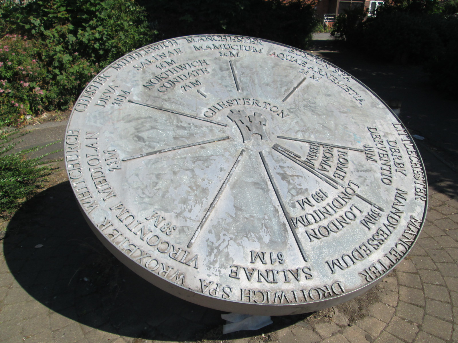 At the corner of London Road and Wolstanton Road in Chesterton, Staffordshire. Set up in 2000. The disc displays direction and mileage (in Roman miles) between Chesterton and places in England, showing names in English and Latin.